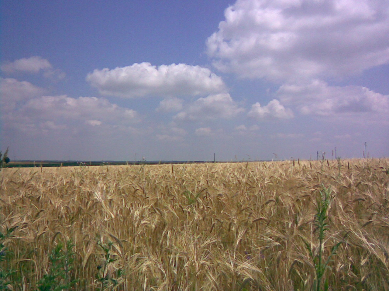 Rich fields of the Ludogorie